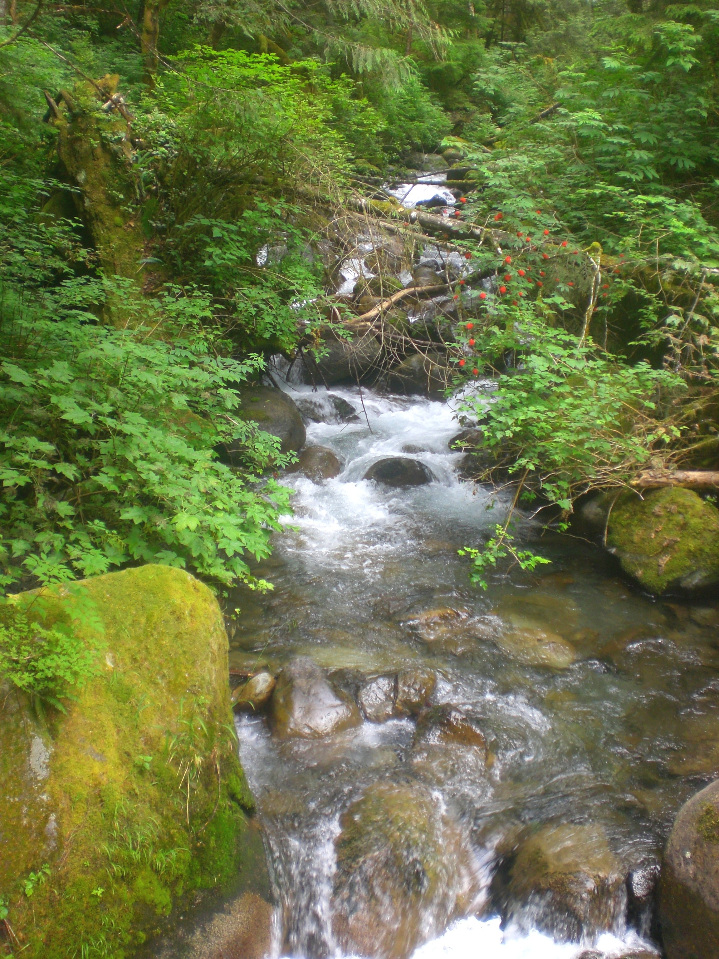 A photo of the Wallace River.